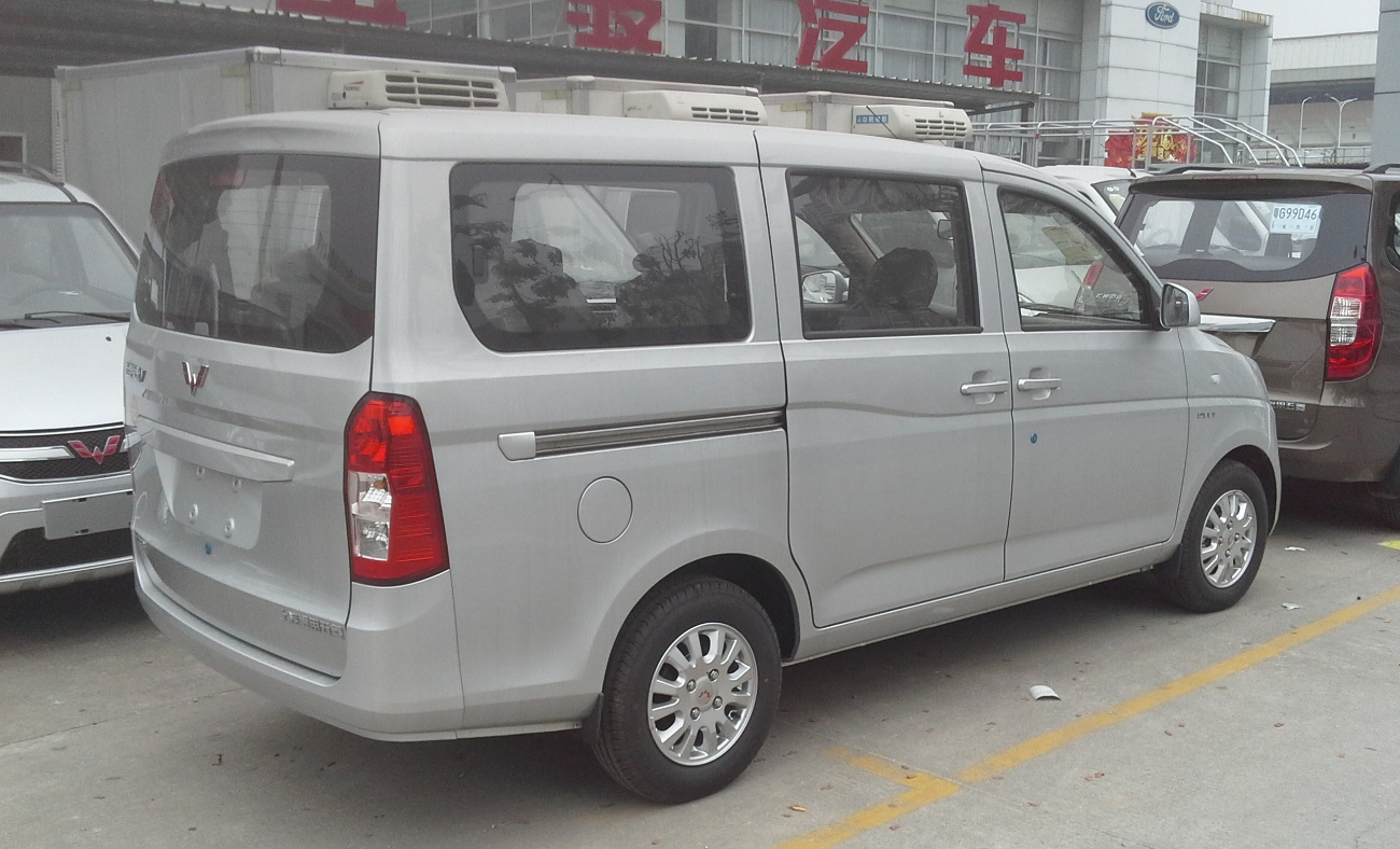 Wuling Hongguang V photographed in Zhanjiang, Guangdong province, China.